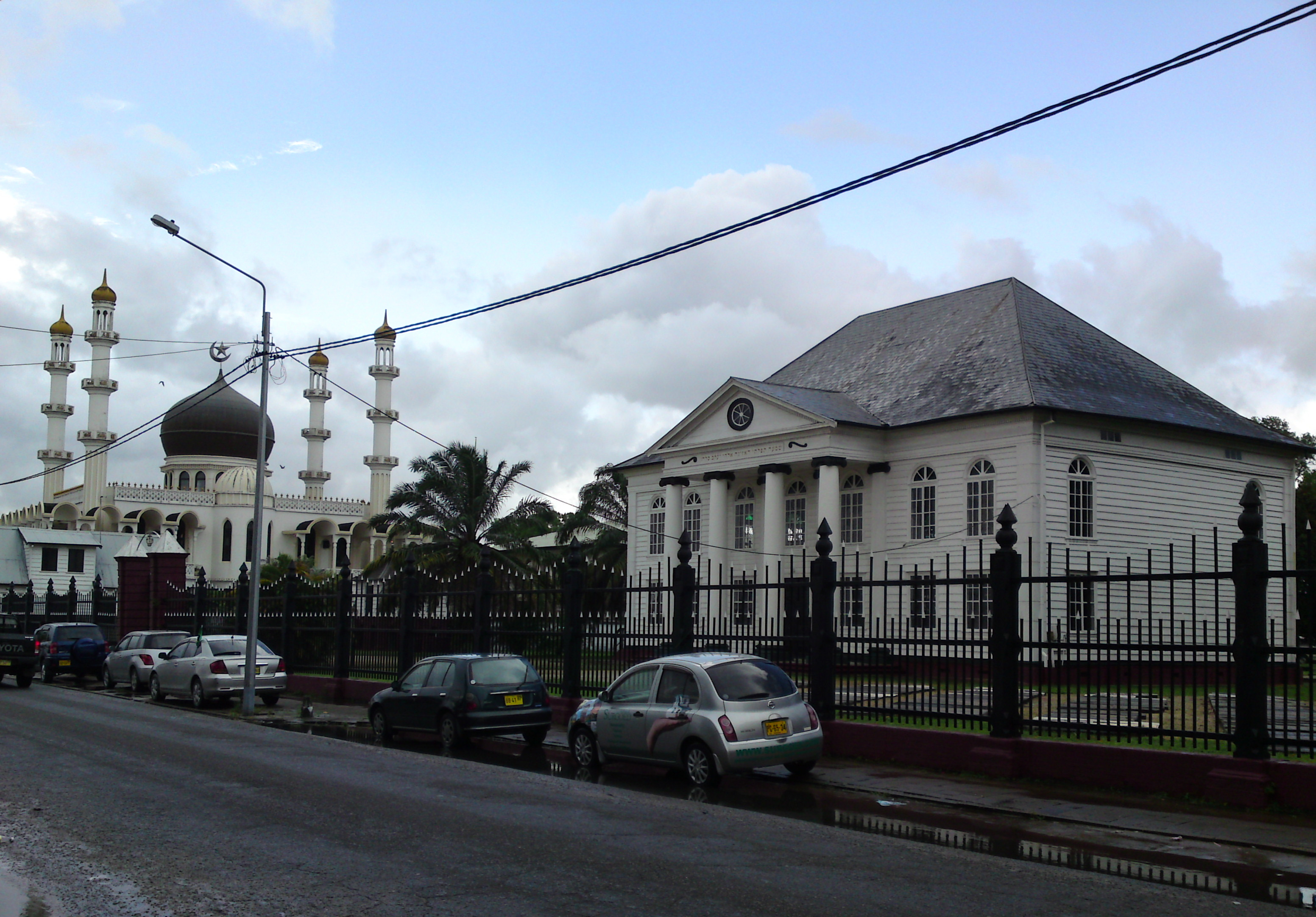 Synagogue and Mosque in Paramaribo